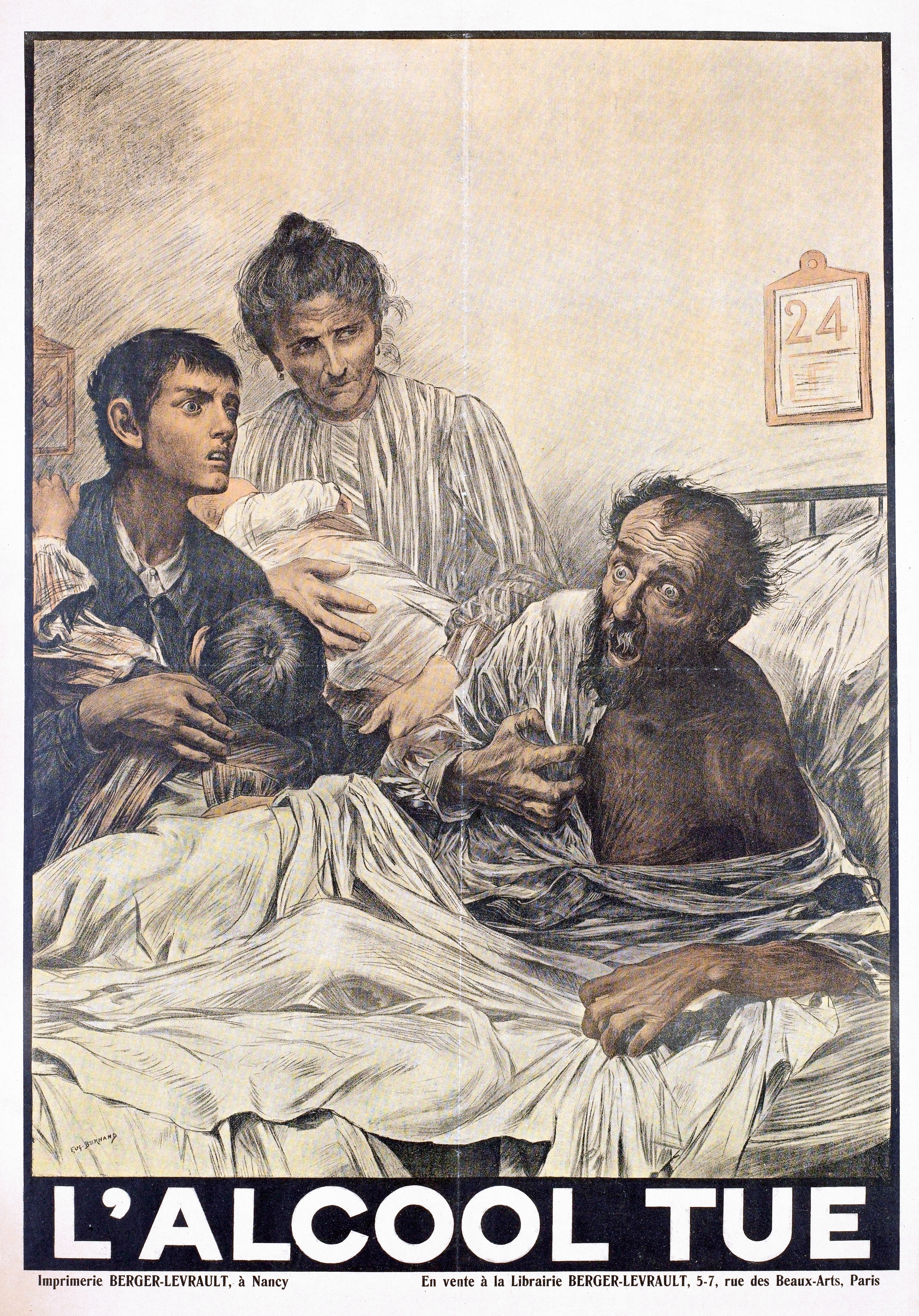 An alcoholic man with delirium tremens on his deathbed, surrounded by his terrified family. The writing on the bottom of the image says "alcohol kills". Iconographic Collections Keywords: Eugène Burnand